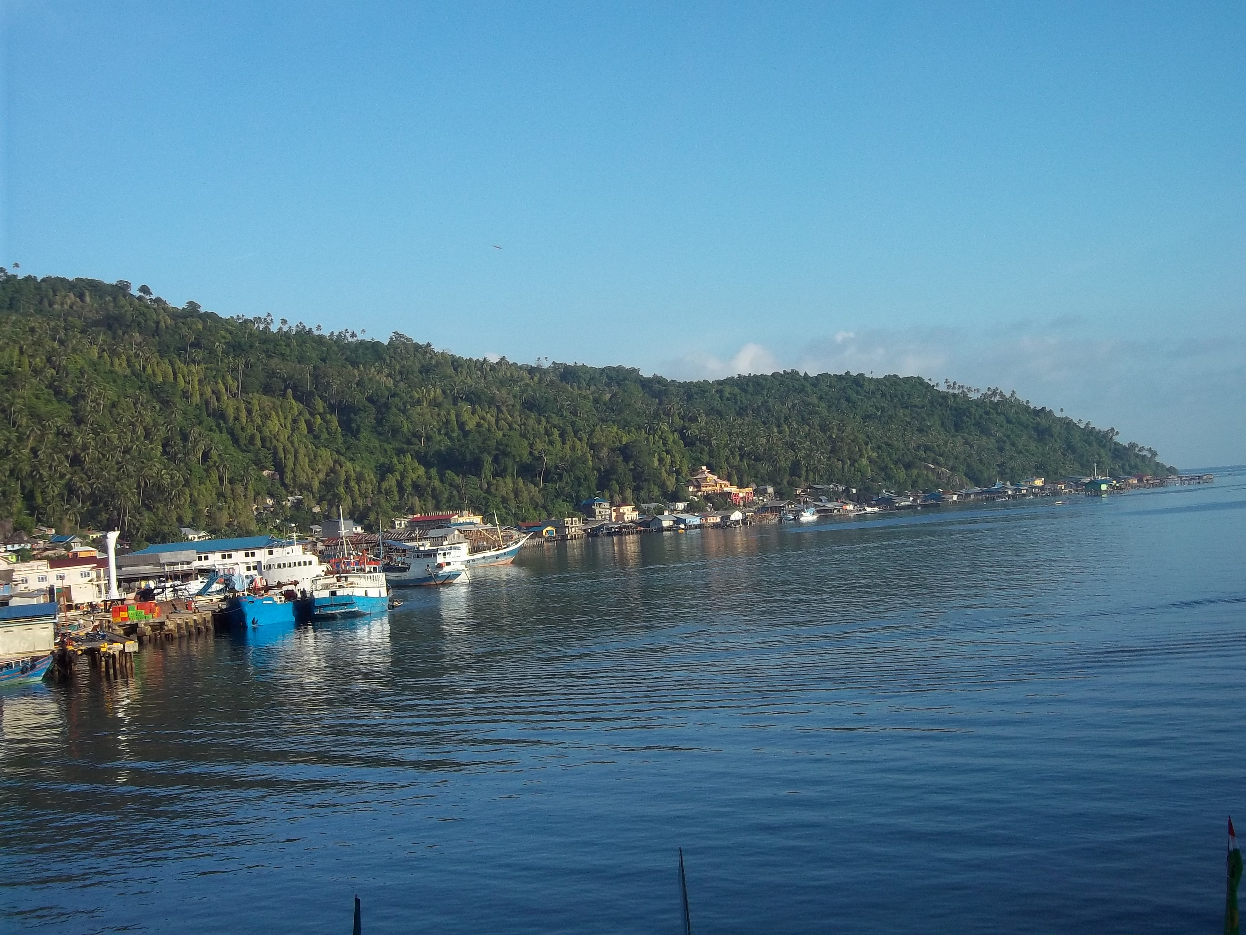 Tarempa Harbor, Anambas Islands, Riau Islands Province, Indonesia